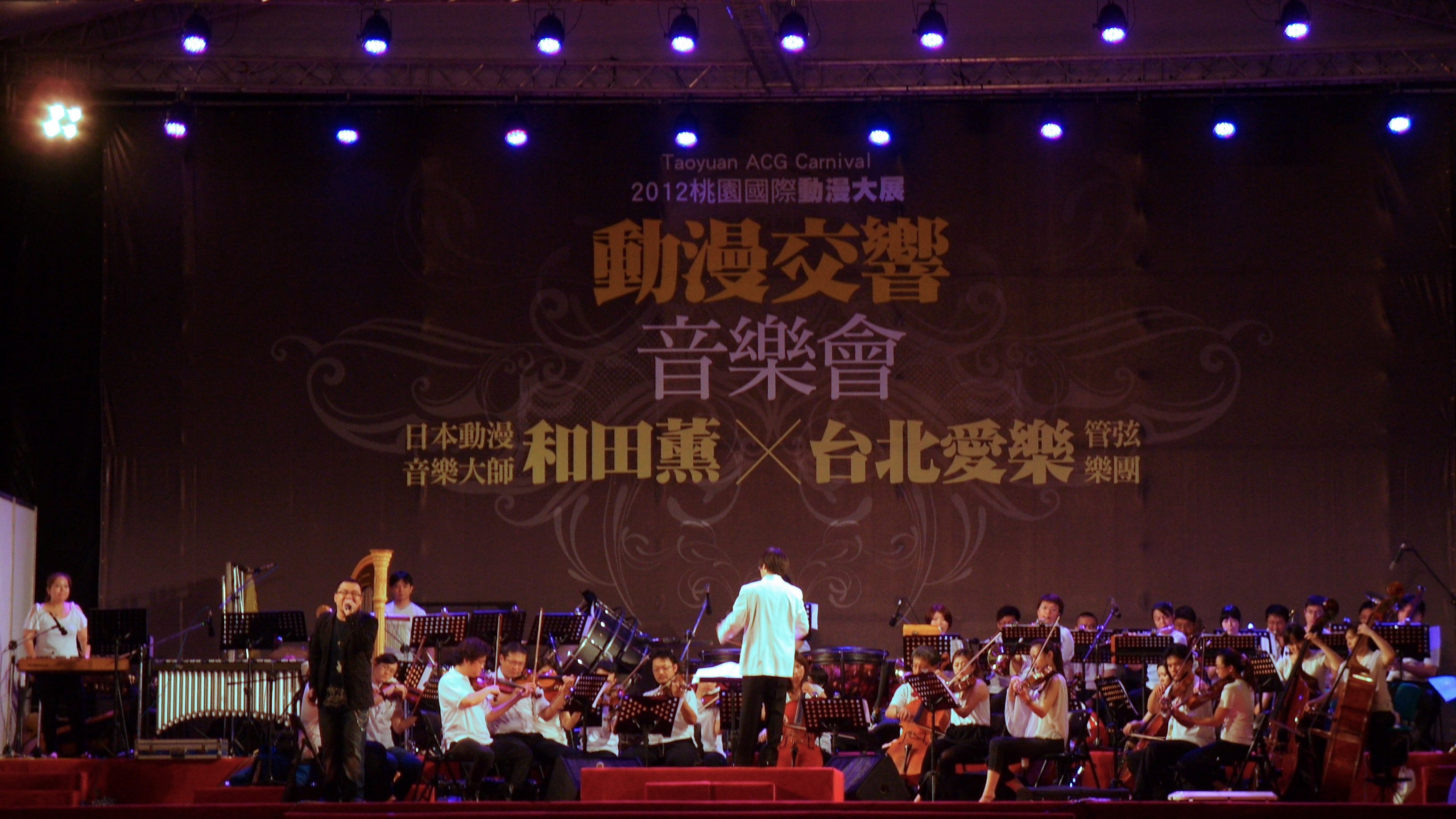 2012 Taoyuan ACG Carnival - Kaoru Wada and Taipei Philharmonic Orchestra Live Orchestral.